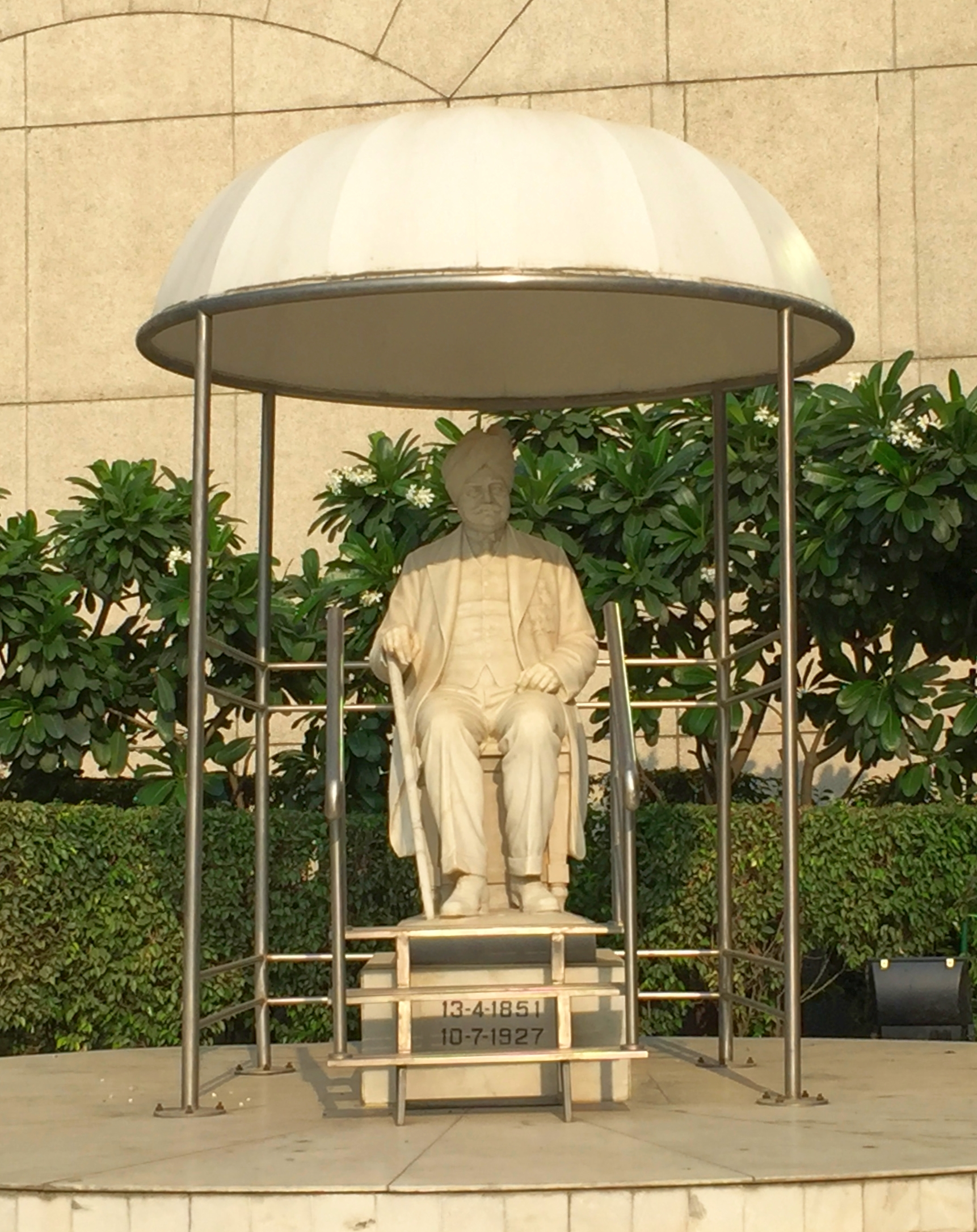 Sir Gangaram statue in Delhi